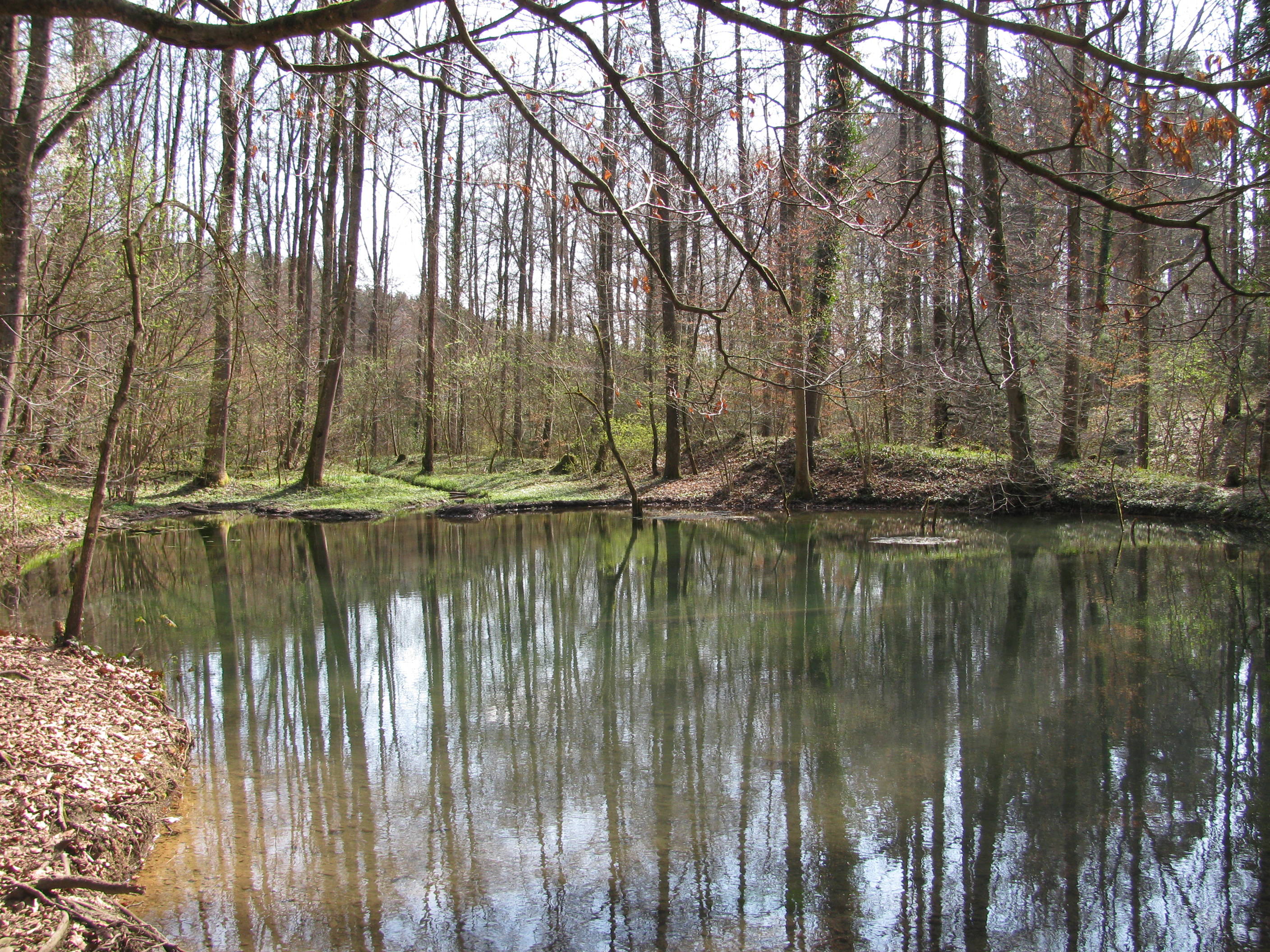 Germany - Baden-Württemberg - Bodenseekreis - Tettnang: Tettnang Forest